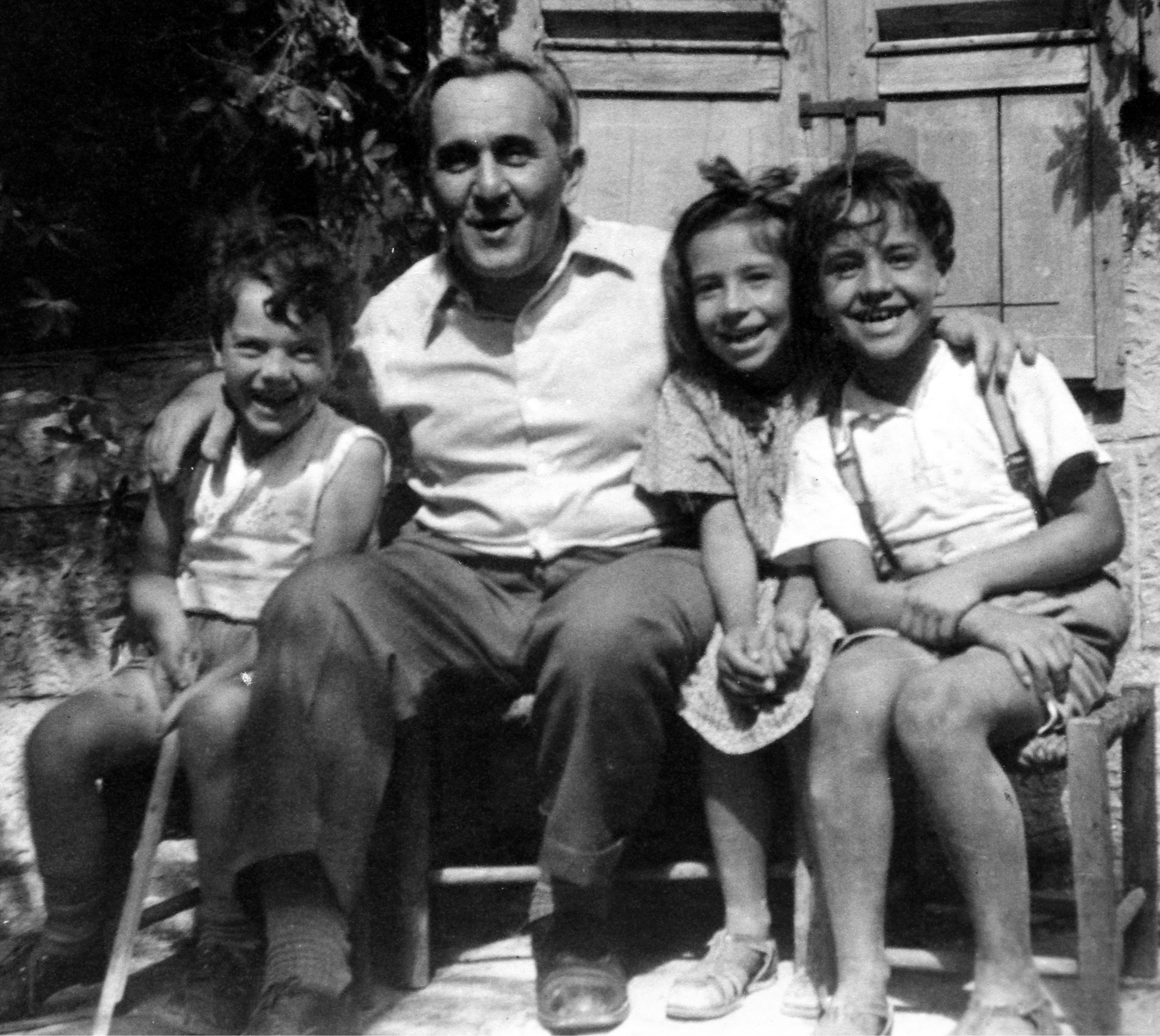 Israeli painter Jacob Steinhardt with his daughter Josepha and friend's children. Photographed in Jerusalem by his friend the composer Josef Tal.